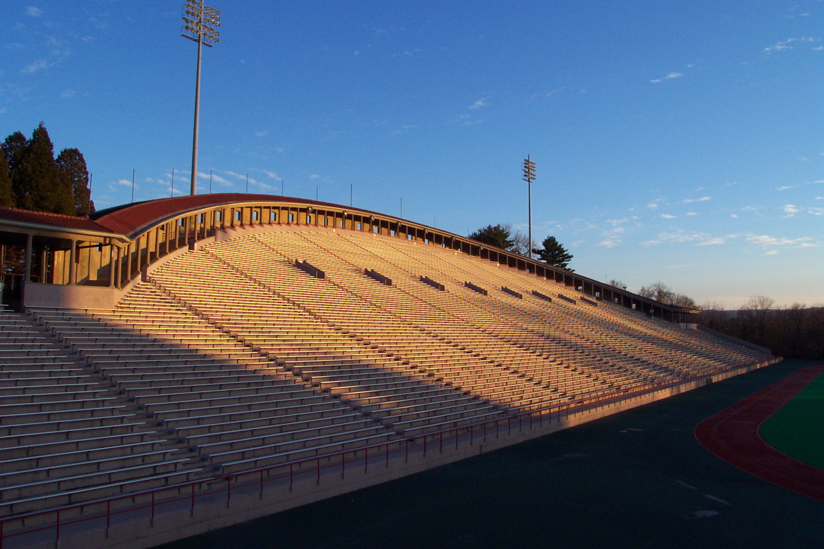 Schoellkopf Field, Cornell University, Ithaca, New York photo credit: Kevin W. Hall, and he gave me permission to upload it Category:Cornell University buildings